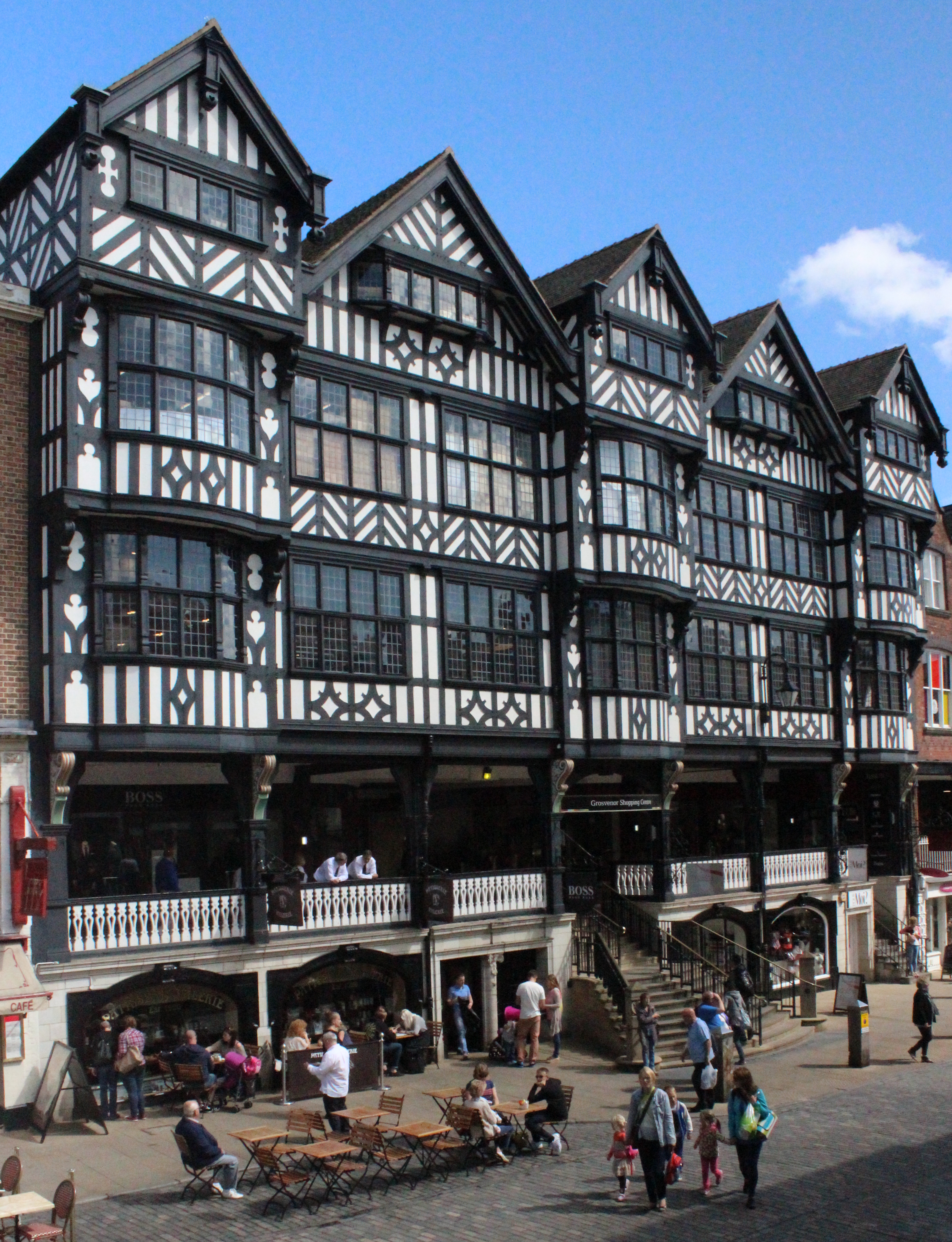 St.Michaels Row Building, Bridge Street, Chester is a five-storey, E-shaped building built for the 2nd Duke of Westminster in 1909-11.[1] It has a late-Elizabethan style timbered-framed façade which hides a steel frame and has two levels of shops - one at street level and the other at "row level" (fronted by a white ballastrade). The main flight of stairs leads into the Grosvenor Shopping Centre. This picture was taken from across the road at row level rather than street level. ↑ Brown, Andrew , ed. (1999) The Rows of Chester - The Chester Rows Research Project, Archaeological Report 16, English Heritage, p. 127